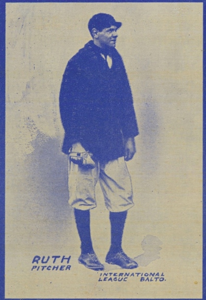 1914 Babe Ruth baseball card as minor leaguer.